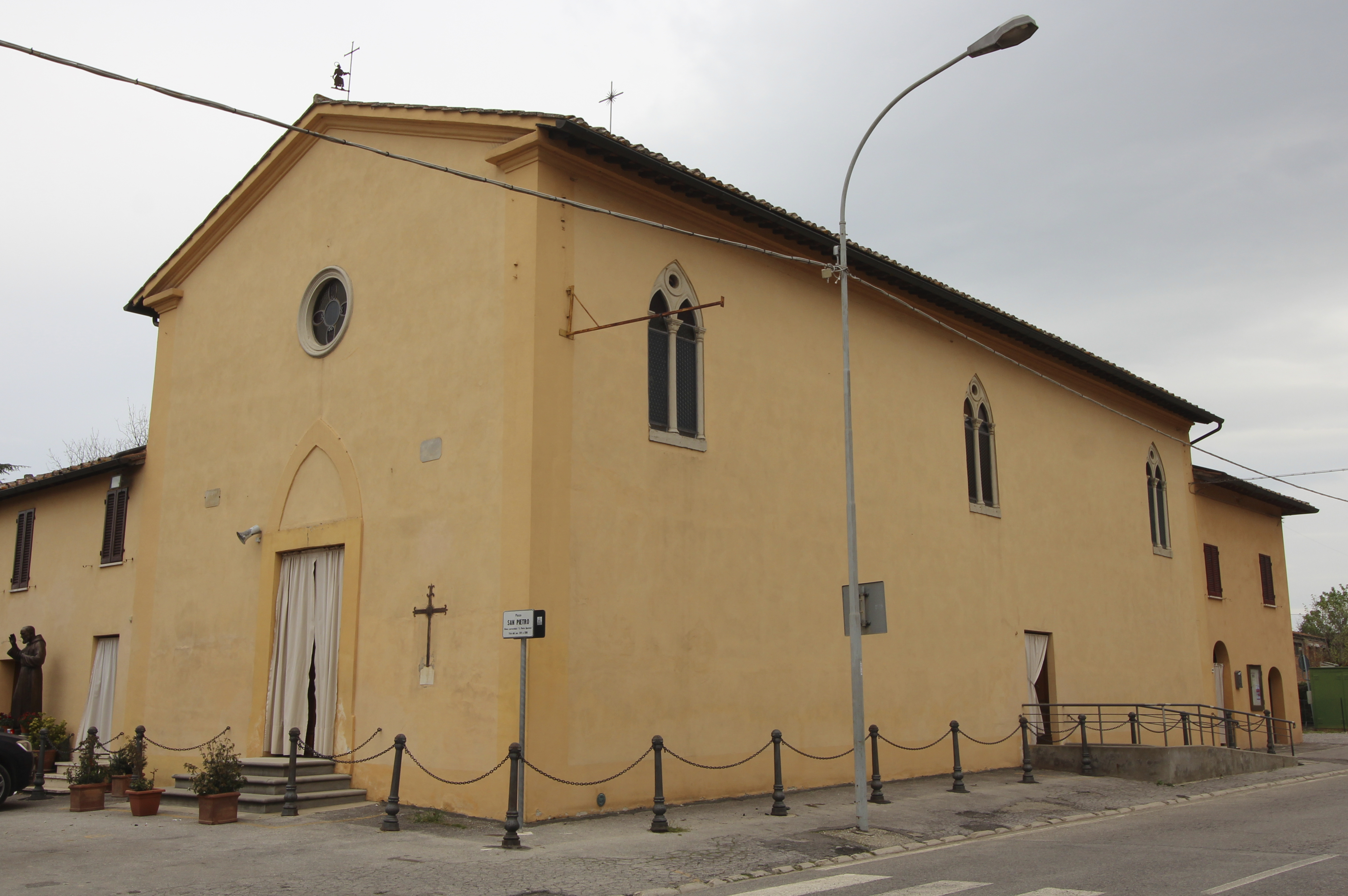 Church San Pietro, Abbadia, hamlet of Montepulciano, Province of Siena, Tuscany, Italy